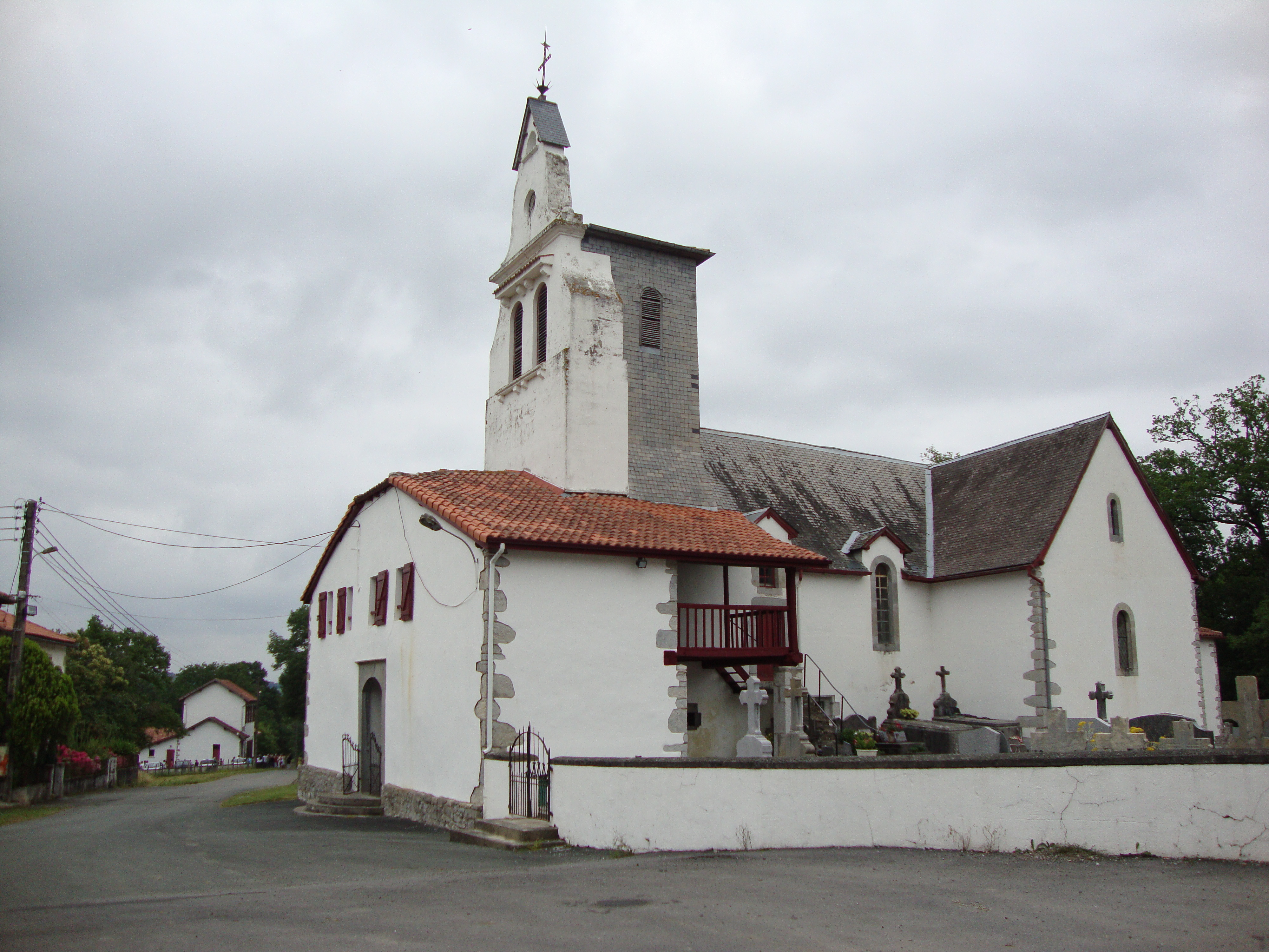 Lantabat St-Martin (Pyr-Atl, Fr) church St.Martin sideview.